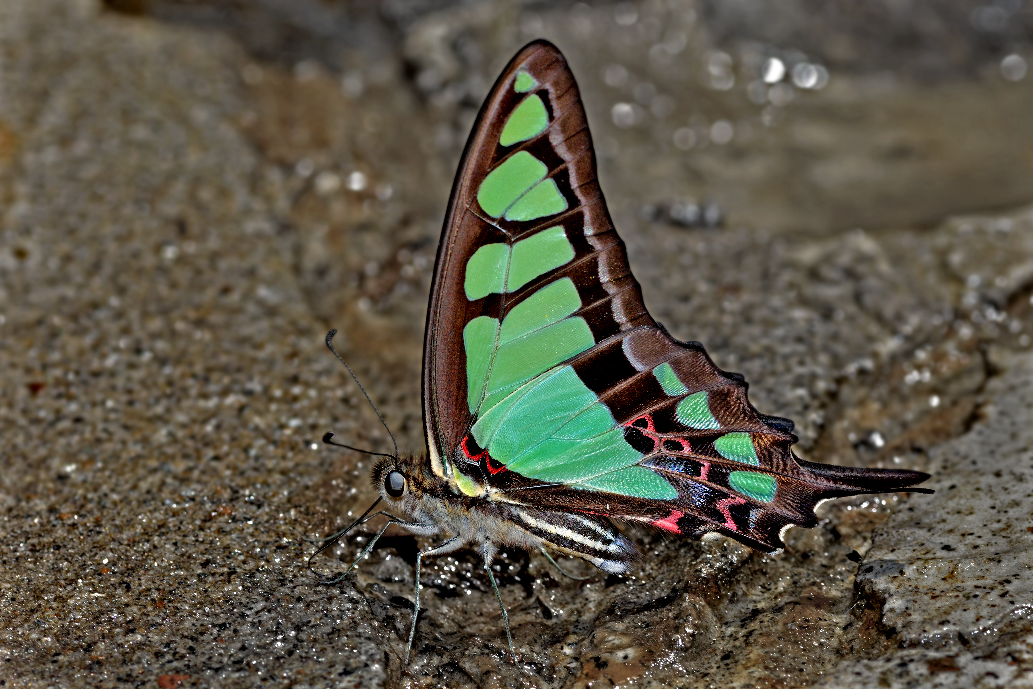 Close wing position mud-puddle of Graphium cloanthus Westwood, 1841 – Glassy Bluebottle. Subspecies: Graphium cloanthus cloanthus Westwood, 1841 – Himalayan Glassy Bluebottle অসমীয়া: পাখি বন্ধ অৱস্থাত mud-puddling কৰি থকা Graphium cloanthus Westwood, 1841 – Glassy Bluebottle পখিলা । এই নমুনাটো Graphium cloanthus cloanthus (Westwood, 1841) – Himalayan Glassy Bluebottle উপ-প্ৰজাতিৰ অন্তৰ্গত ।